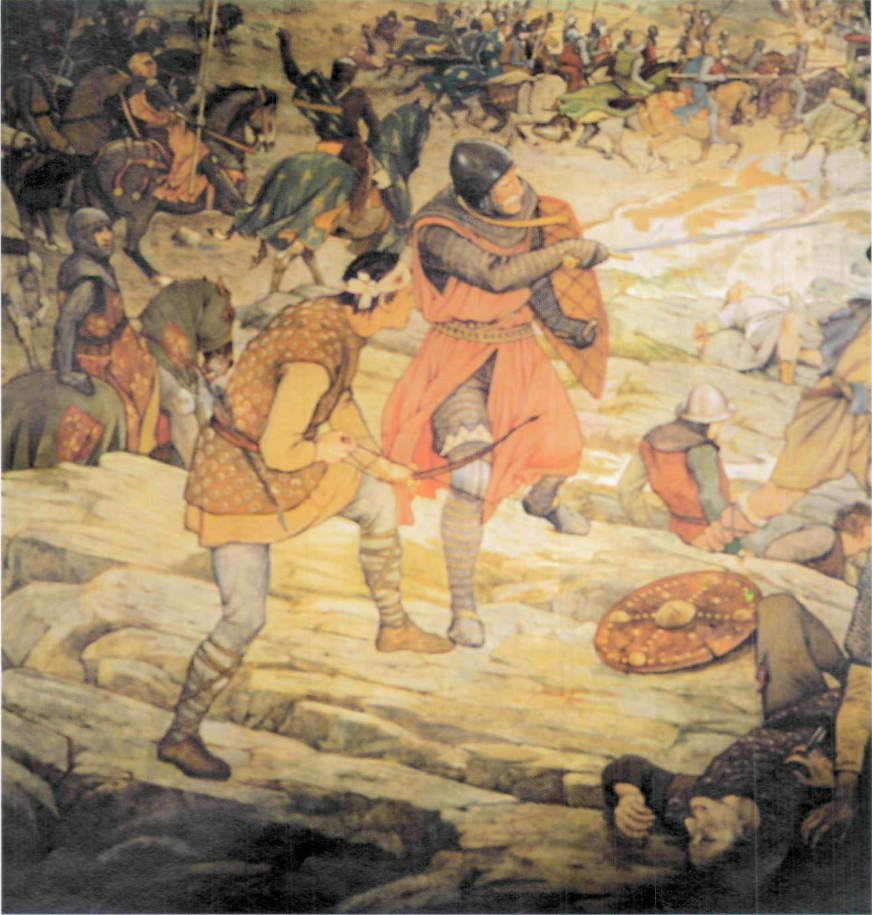 Mural of the Battle of Largs in the Scottish National Portrait Gallery